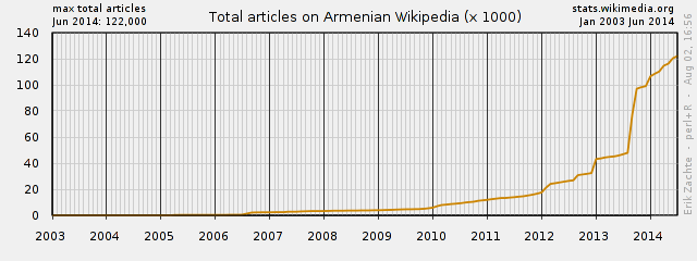 Armenian Wikipedia's article count development up to June 2014.